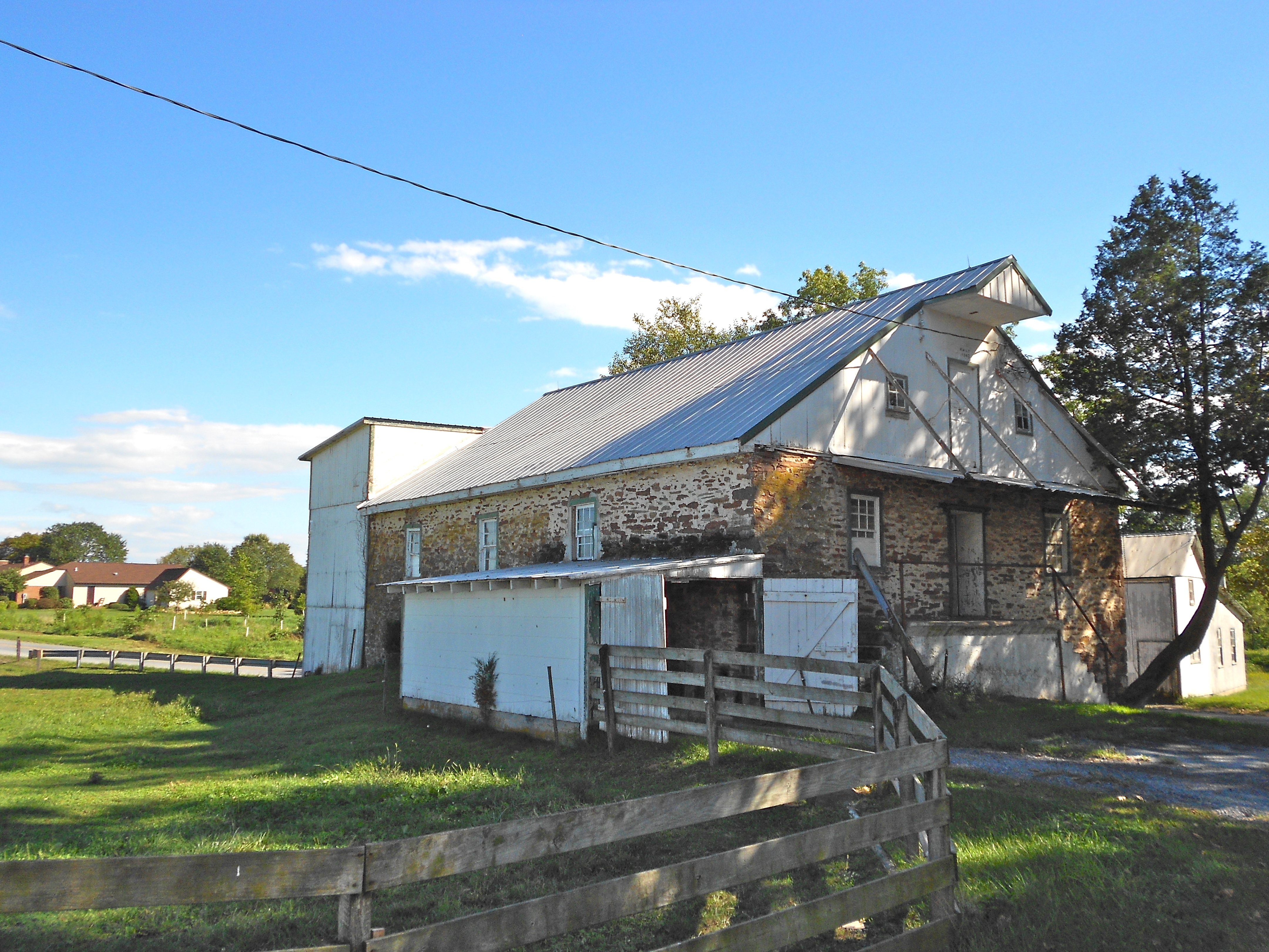 Griesemer-Brown Mill Complex Mill building.